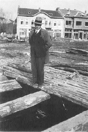 Stara reka riverbed corrections in Botevgrad, first half of XX century